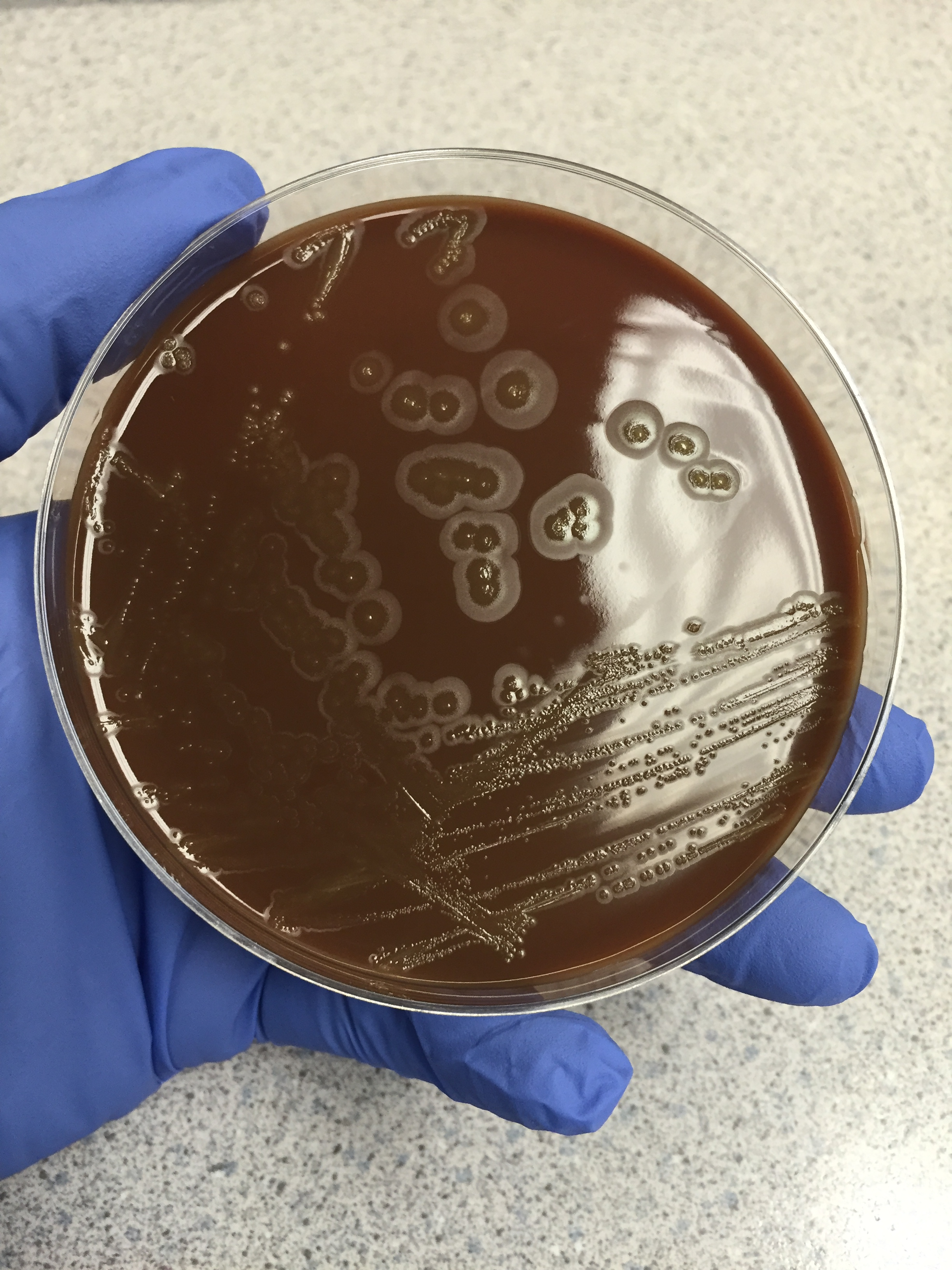 Eikenella corrodens grown on chocolate agar after 36 hours. Notice how the colonies create pits in the agar characteristic of this species.